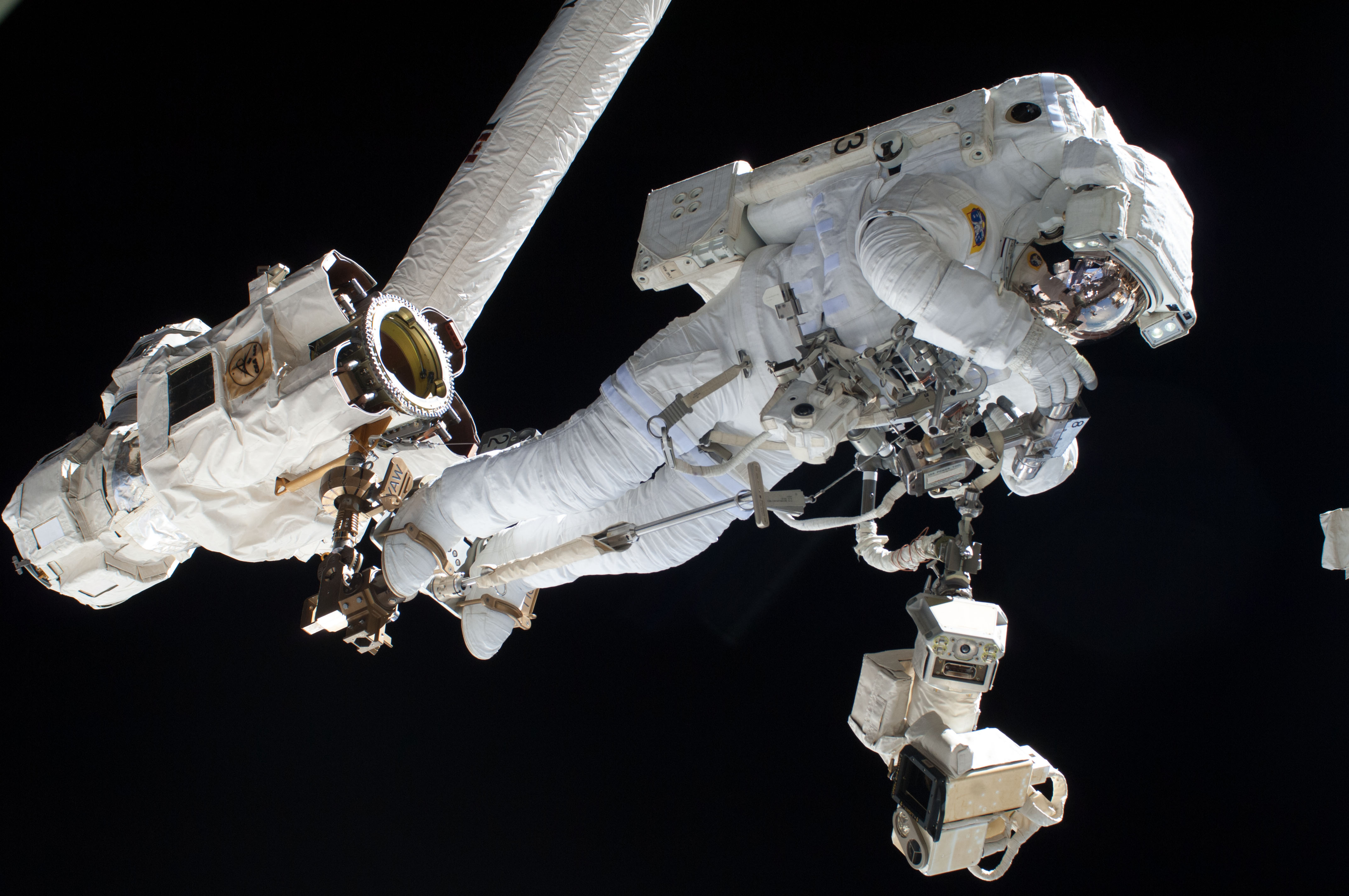 Anchored to a Canadarm2 mobile foot restraint, European Space Agency astronaut Luca Parmitano, Expedition 36 flight engineer, participates in a session of extravehicular activity (EVA) as work continues on the International Space Station. During the six-hour, seven-minute spacewalk, Parmitano and NASA astronaut Chris Cassidy (out of frame), flight engineer, prepared the space station for a new Russian module and performed additional installations on the station's backbone.